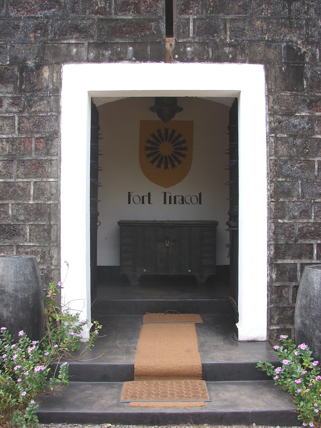 Terekhol Heritage Resort Entrance